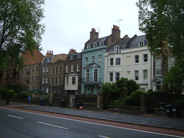 Kennington Road. A varied terrace on the west side of Kennington Road, near the junction with Walnut Tree Walk.